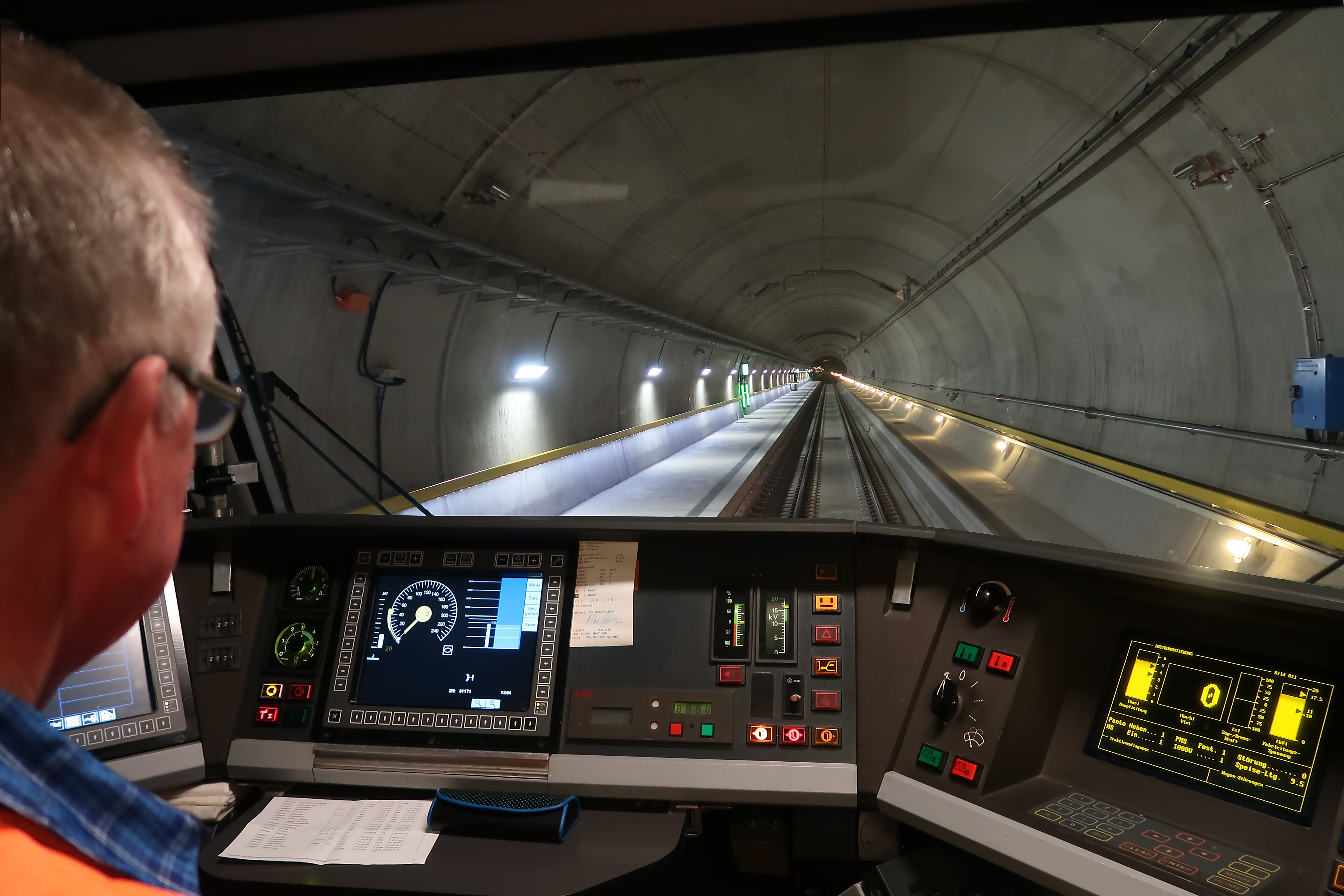 View from the cab of a Bt 50 85 driving trailer towards south. Gottardino extra train at the emergency-stop Sedrun in the eastern tube. This train is approved for the Lötschberg base tunnel, the Gotthard base tunnel and the new stretch of track Zürich-Bern. Switzerland, Oct 18, 2016.